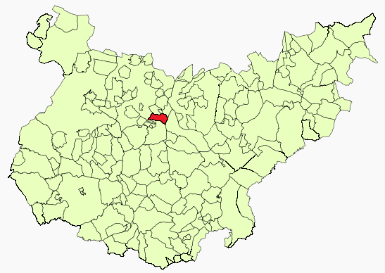 La Zarza